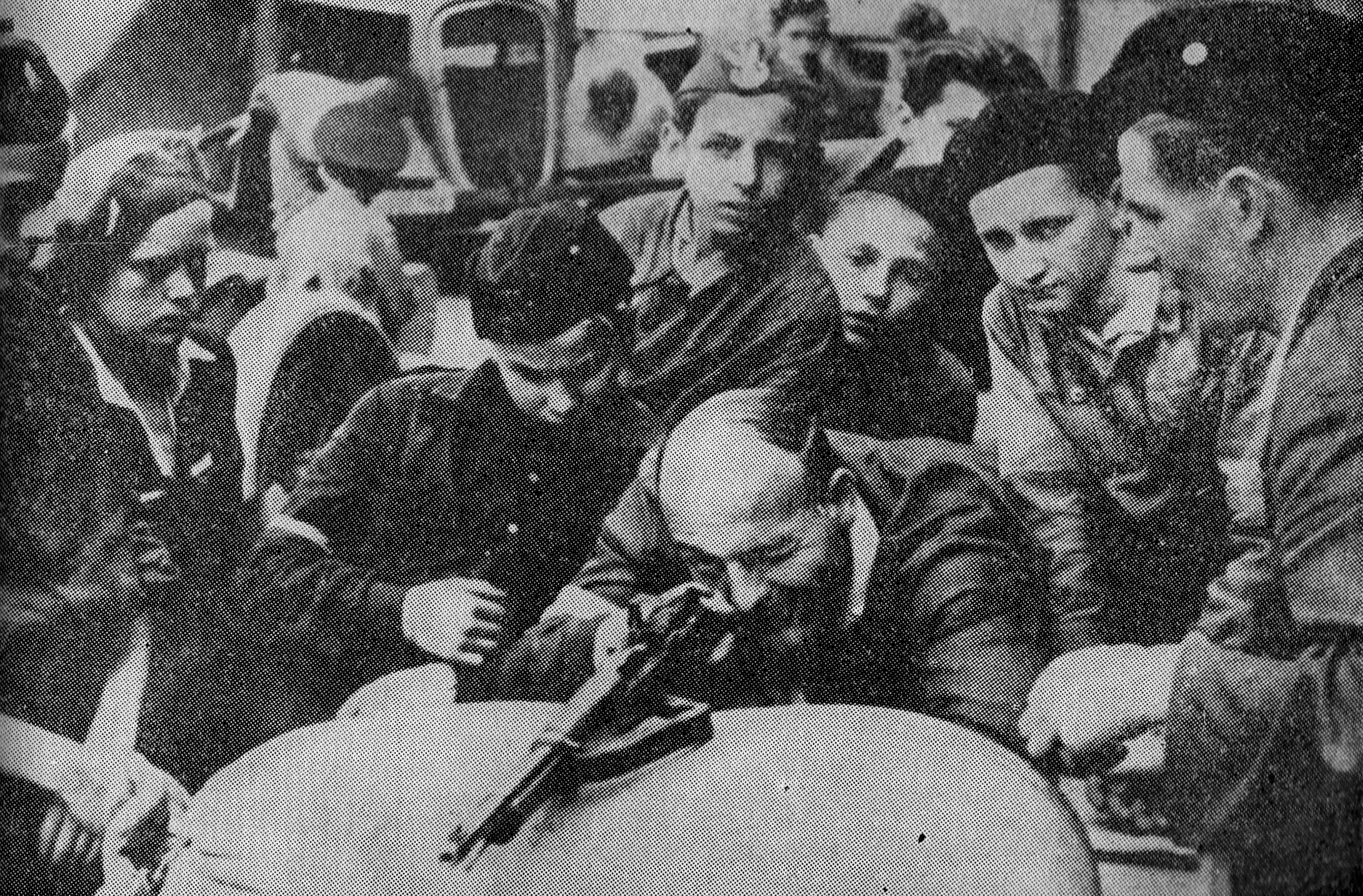 Warsaw Uprising. Youngest resistance fighters during shooting training